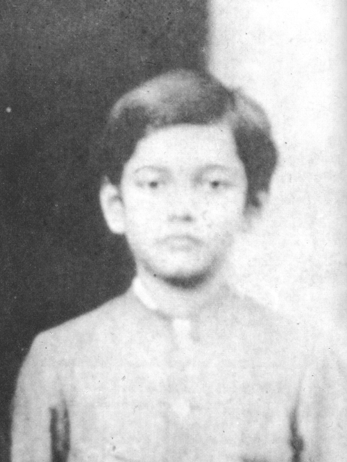 Subhas Chandra Bose as child, crop from a family portrait.